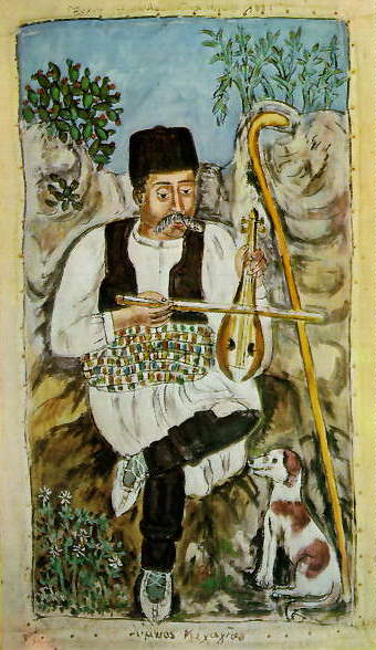 Λημνιός Κεχαγιάς or Lyra player from Lemnos, by Theophilos Hatzimihail (1870-1934).